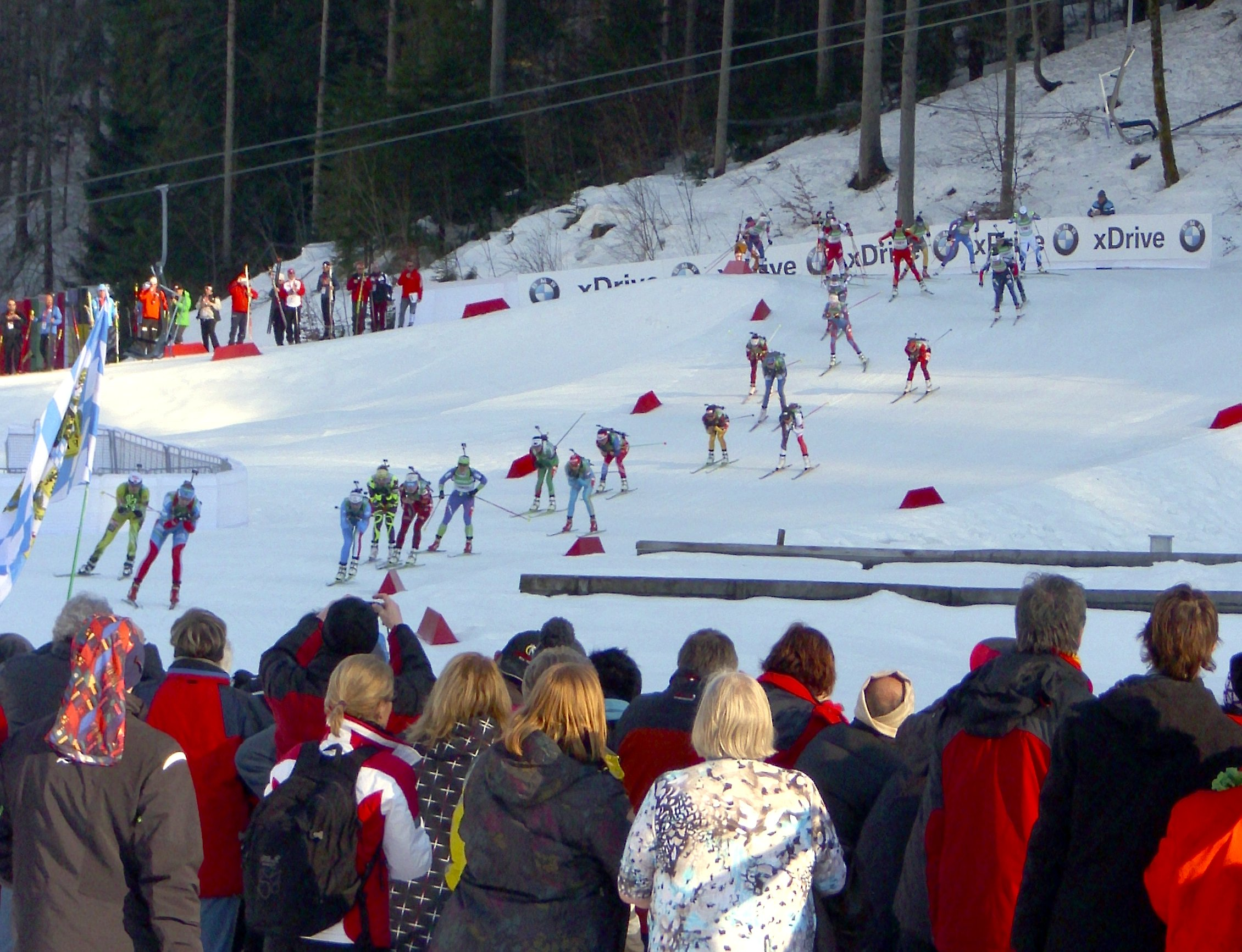 Mixed relay at the Biatlon World championship event 2012 in Ruhpolding, first lag, ~ 1 minute after start.